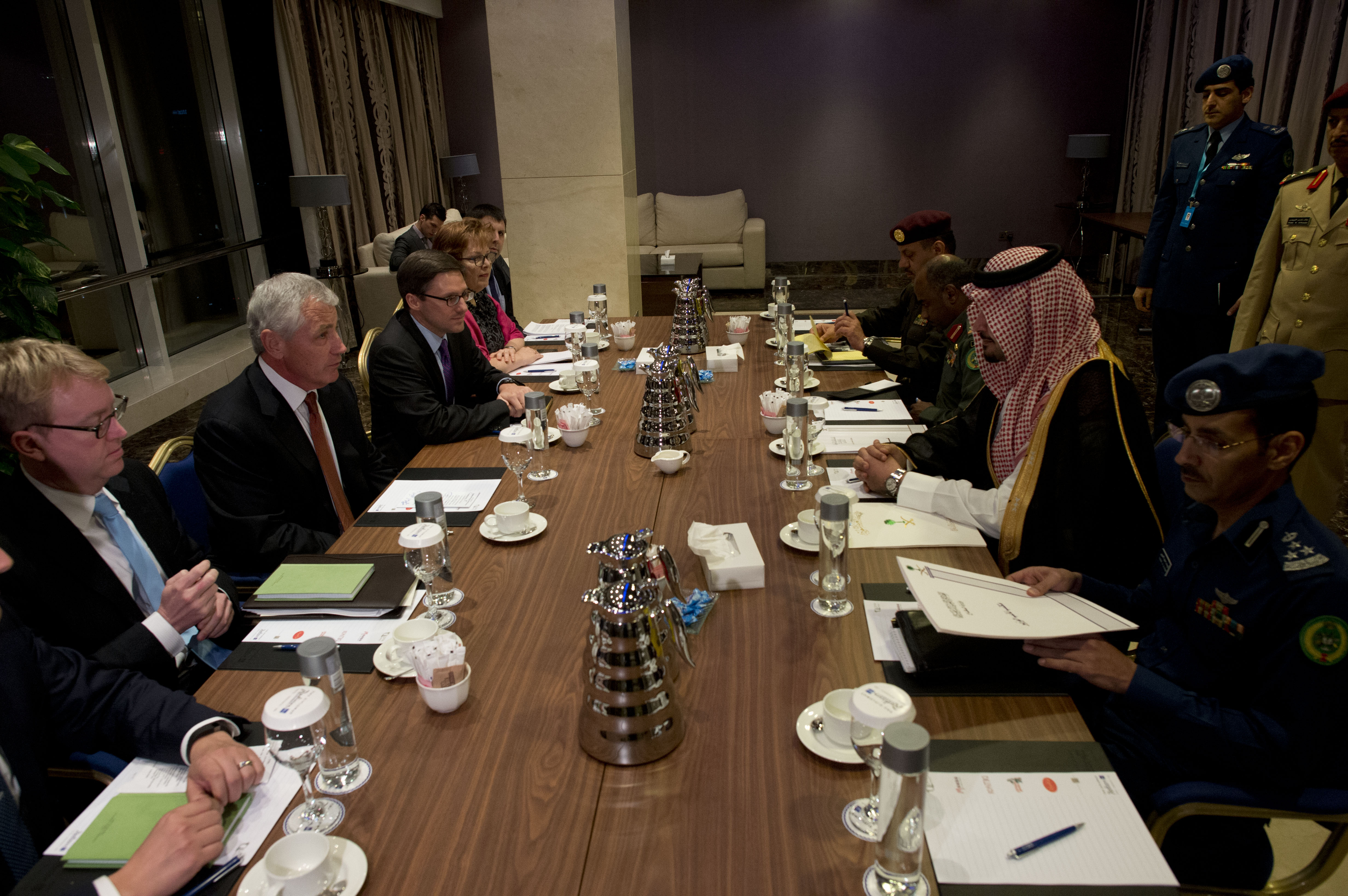 U.S. Secretary of Defense Chuck Hagel, second from left, meets with Saudi Arabian Deputy Minister of Defense Prince Salman bin Sultan, second from right, in Bahrain Dec. 6, 2013. The two met to discuss issues of mutual importance.